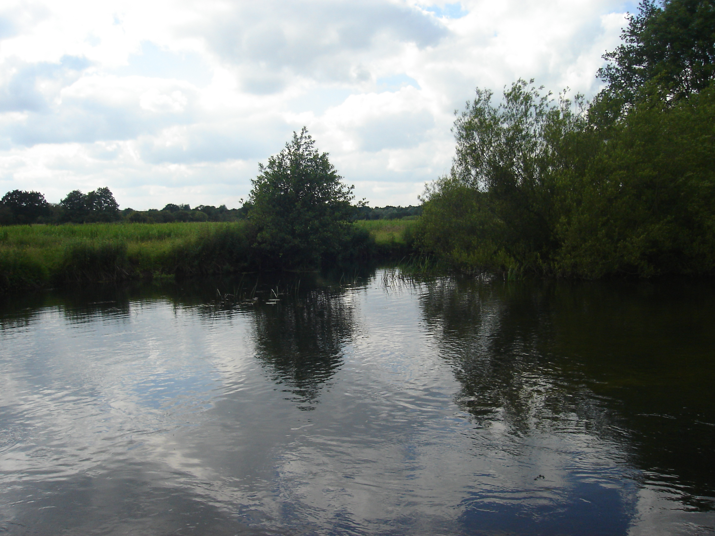 The River Tud in the background of the picture merges with the River Wensum below Hellesdon Mill, Norfolk